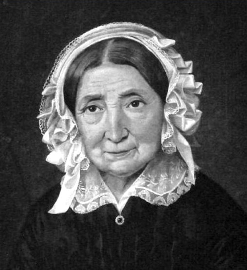 Maria Emerentia Struve (1764-1847), wife of Jacob Struve